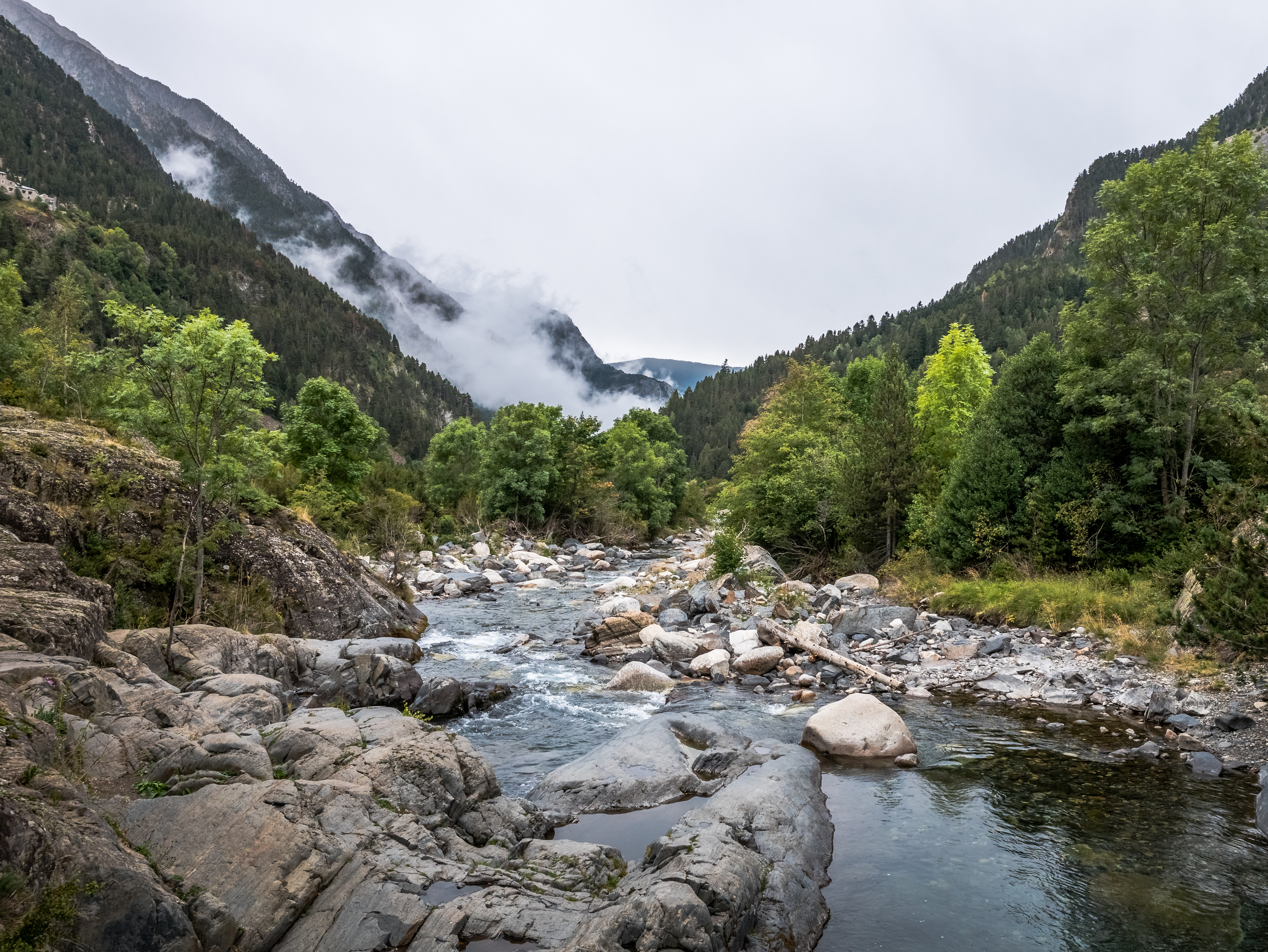 Esera River near the Turpi plains and the Baños de Benasque Spa. Huesca, Aragon, Spain